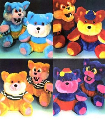 WearBears (c) George Nicholas